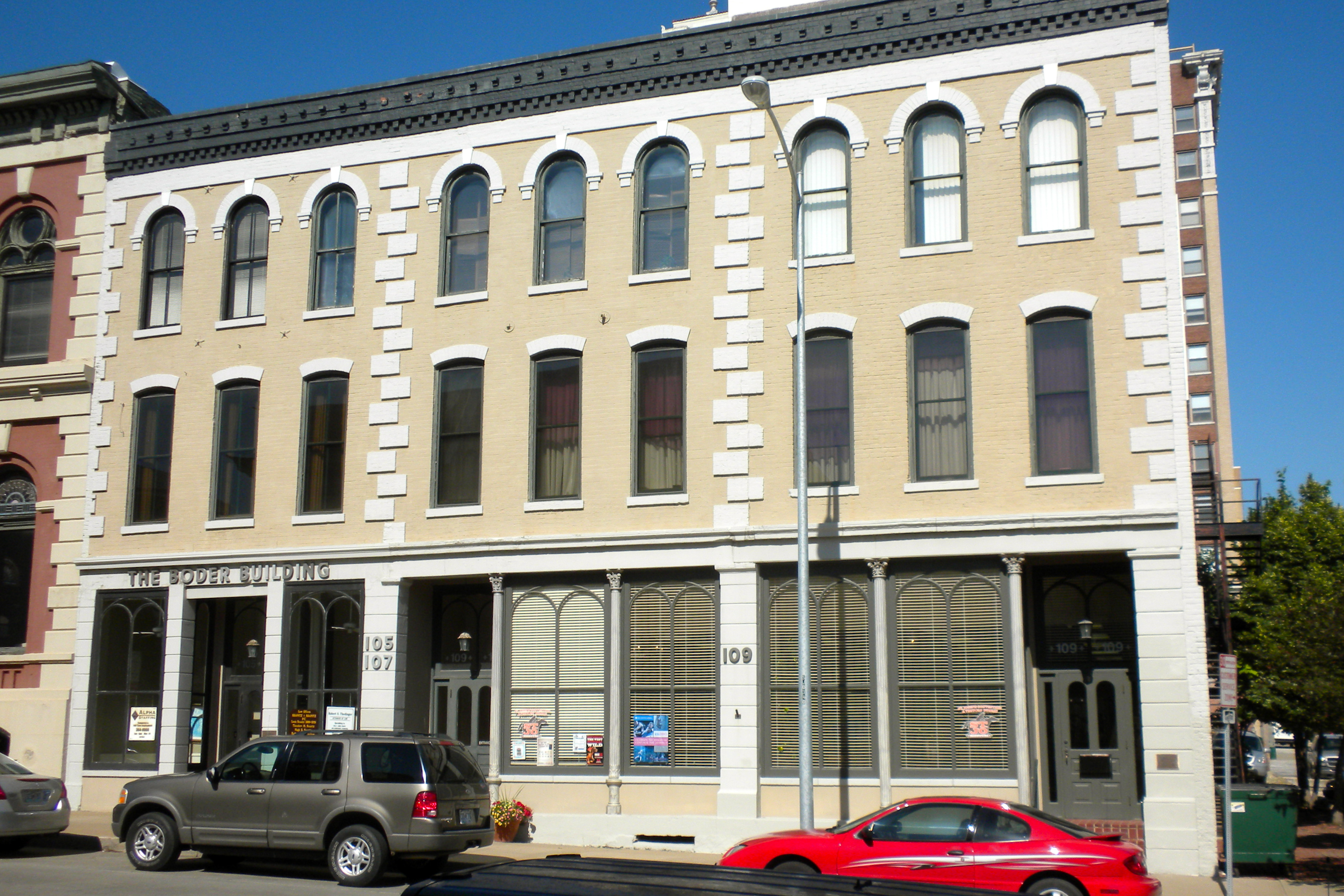 Missouri Valley Trust Company Historic District, on the NRHP since March 4, 1975. At Felix and 4th Sts.,St. Joseph, Missouri. This building is used now as a visitors center for tourists comming into town.